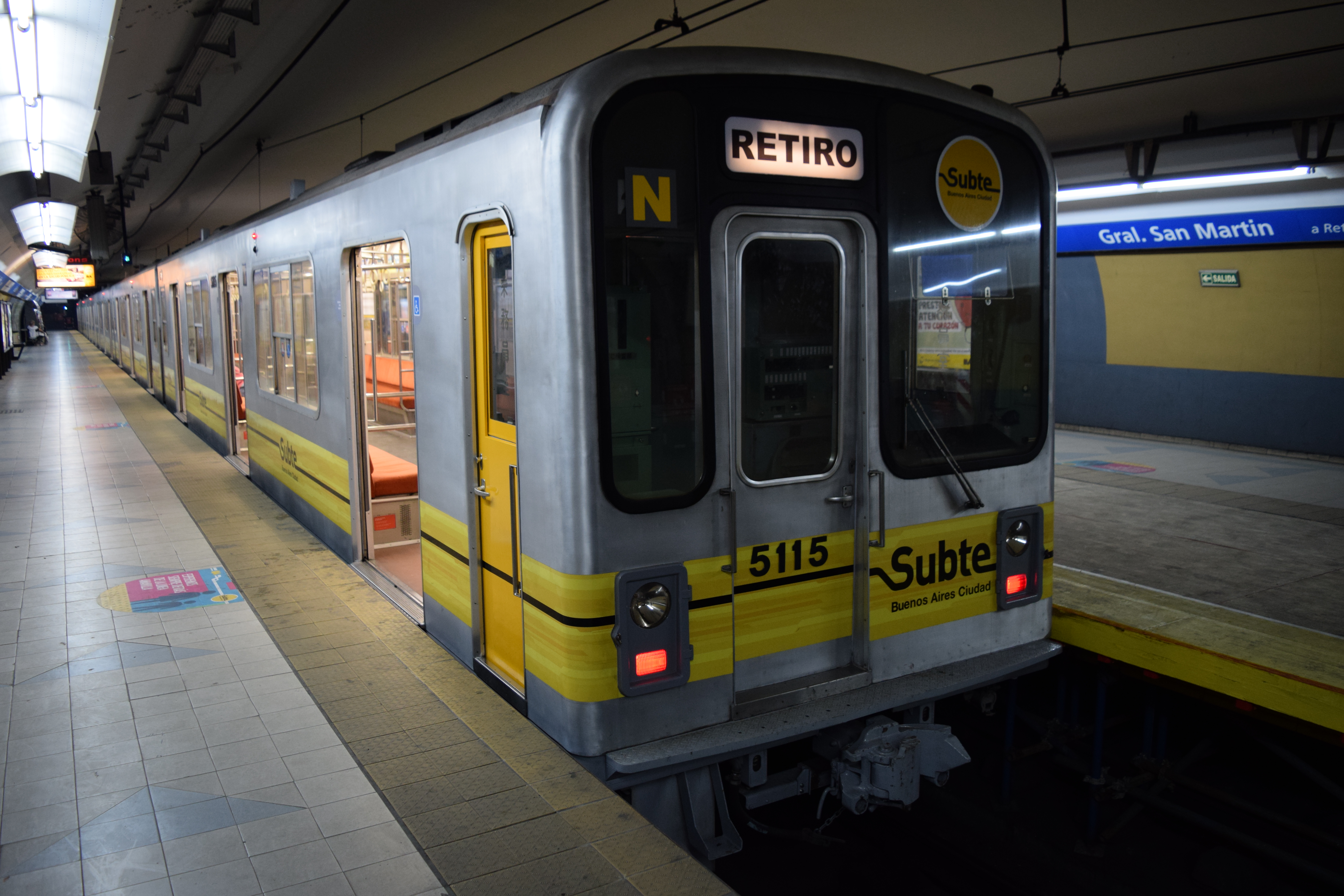 A Nagoya train at San Martin station on Line C of the Buenos Aires Underground